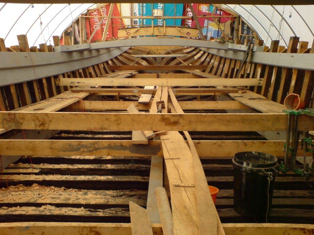 The Thames sailing barge Thalatta being rebuilt at St Osyth, Essex, England. View from inside the hull. Date: September 21st 2008. Photo by Will Kemp.